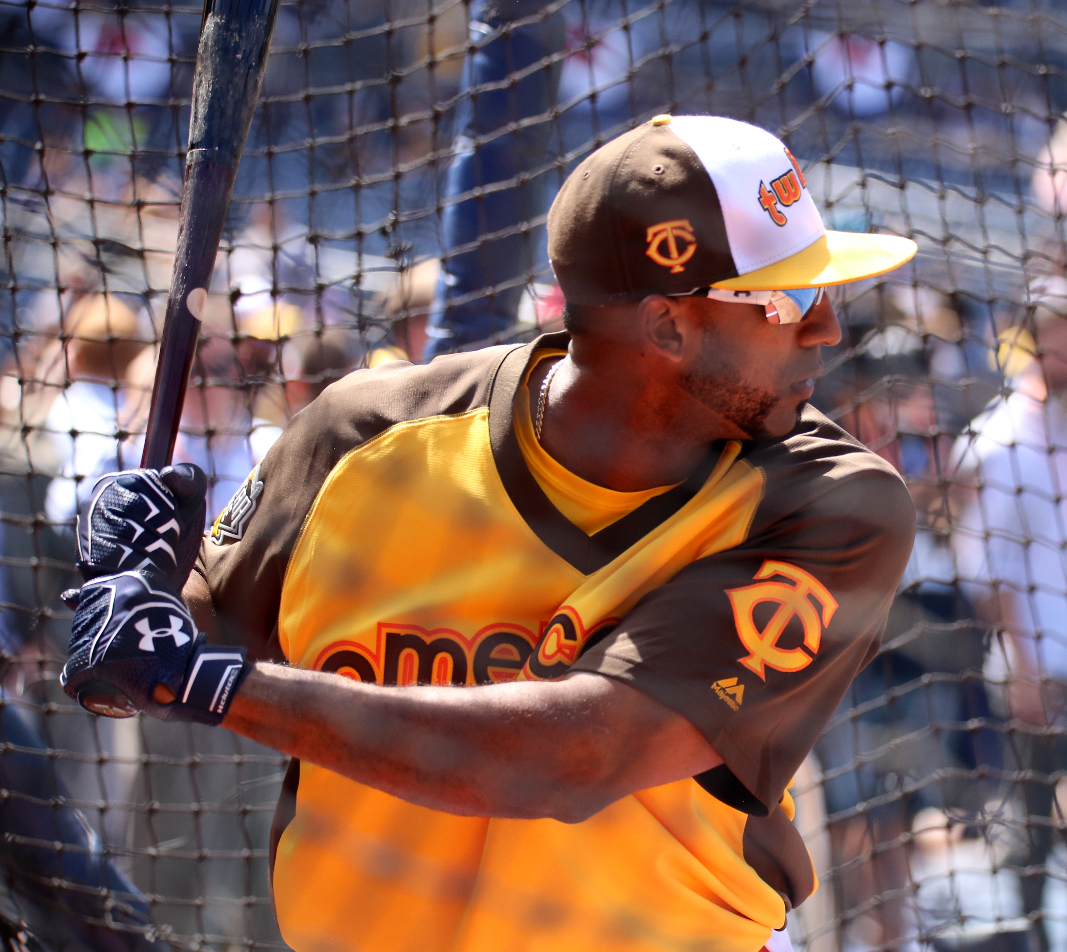 Eduardo Nunez takes batting practice on Gatorade All-Star Workout Day.